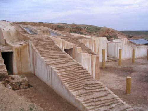 Ruins of a ziggurat in Ebla, Syria